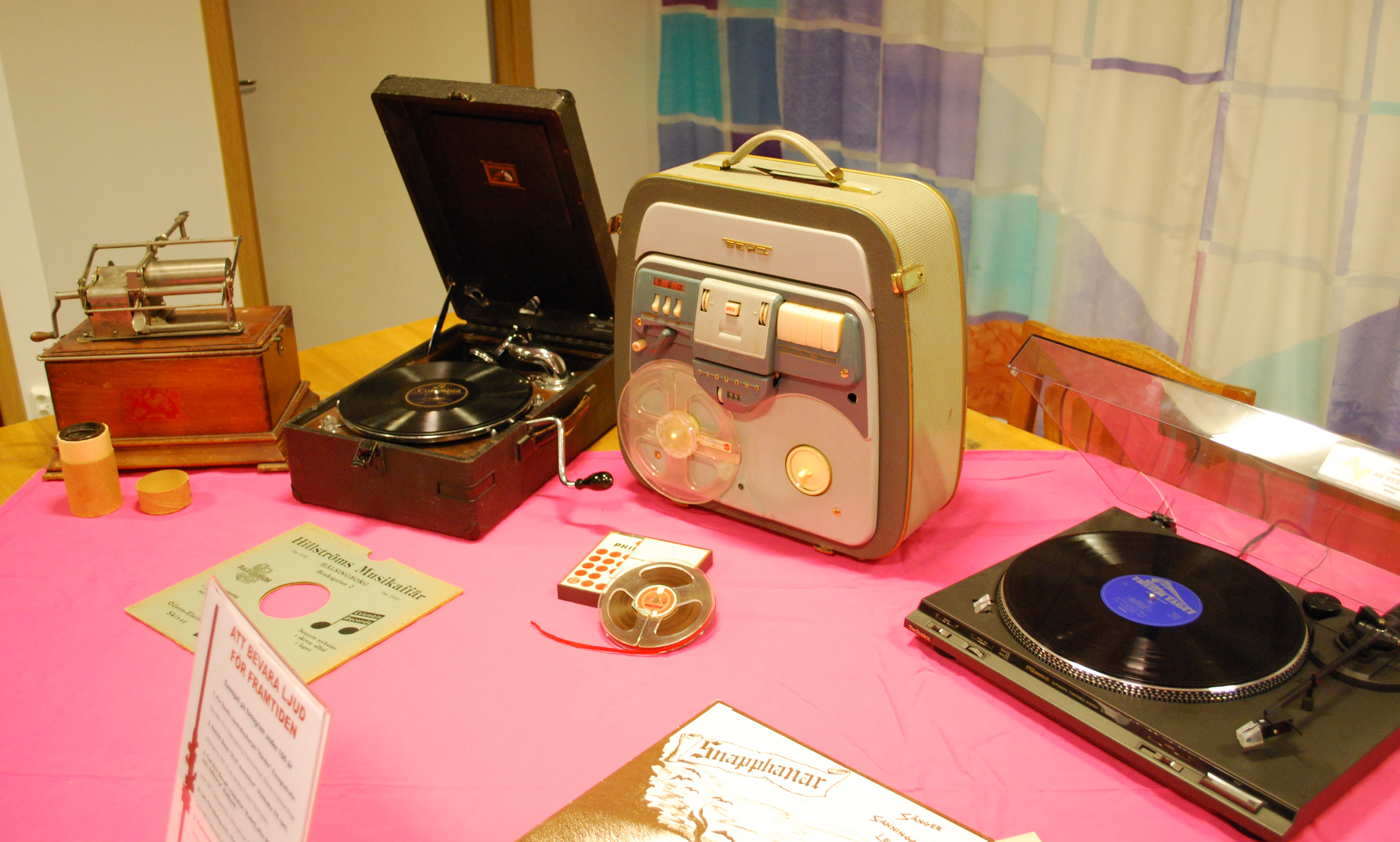 Four kinds of phonograms (or phonorecords) with their respectice playing equipment. From left: phonograph cylinder with phonograph, 78 rpm gramophone record with wind-up gramophone, reel-to-reel audio tape recording with tape recorder and LP record with electric turntable. Photo from the exhibition "To preserve sound for the future", showcased at Arkivens dag ("Day of the Archives") at Arkivcentrum Syd in Lund, Sweden, November 2012.